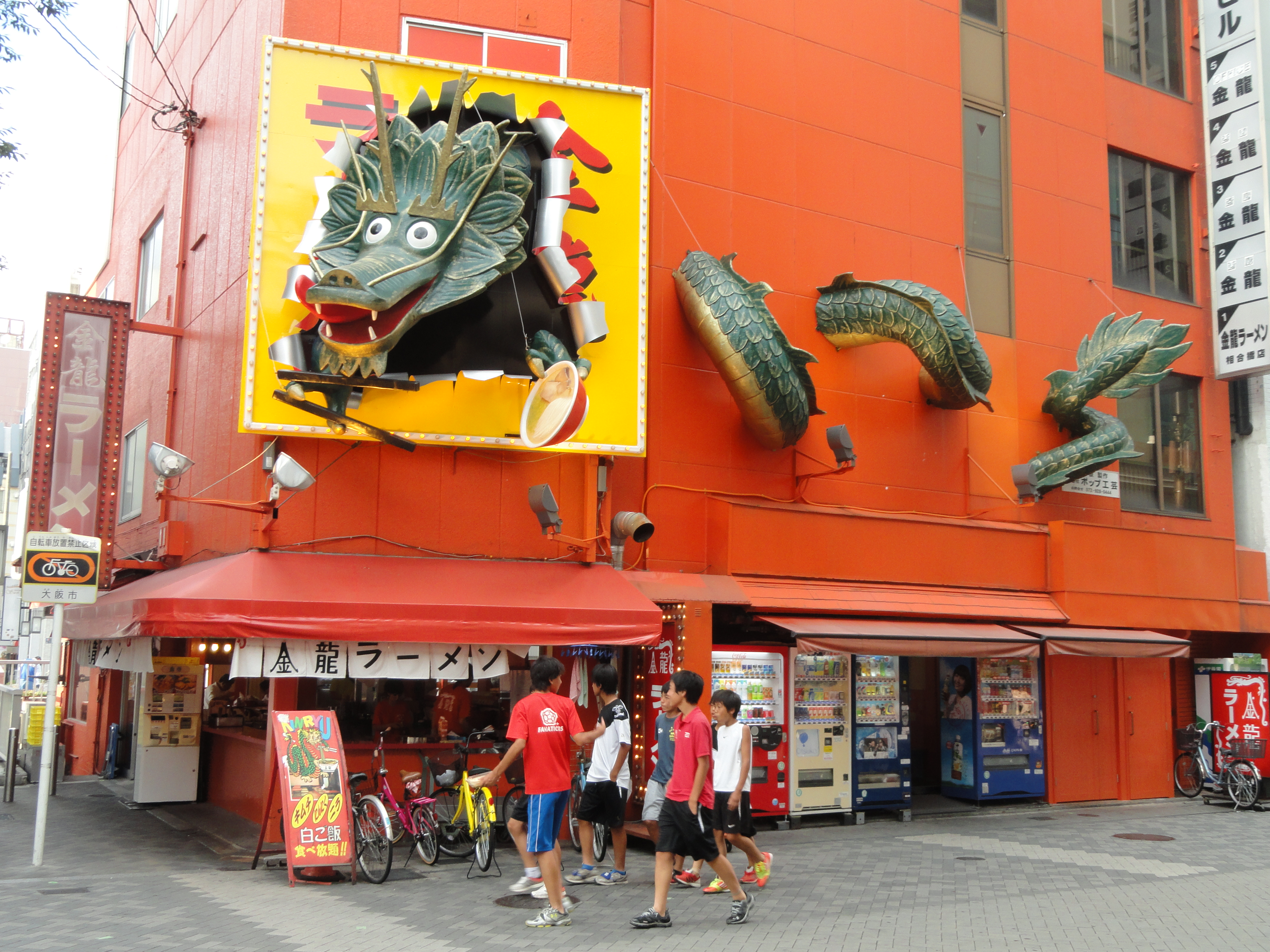 Dotonbori, Osaka, Japan.